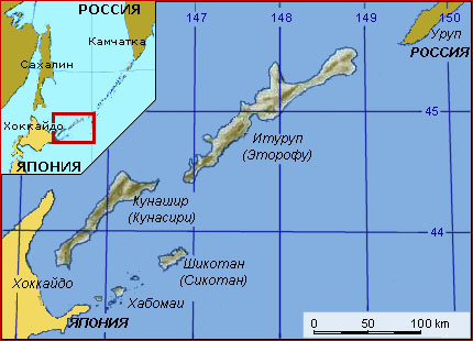 Map of disputed Kuril islands in Russian